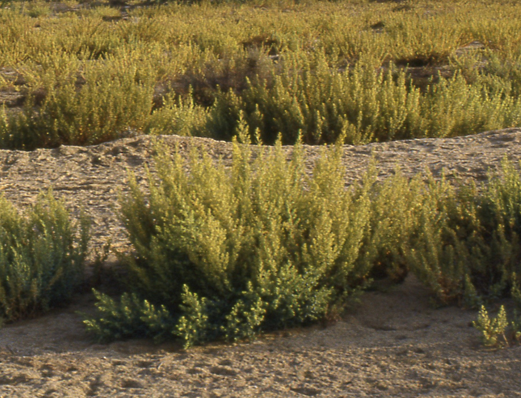 Bienertia cycloptera s.l. (probably Bienertia sinuspersici) - Pakistan, southern Baluchistan, Makran, near Jiwani